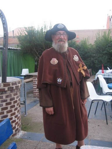 camino de santiago